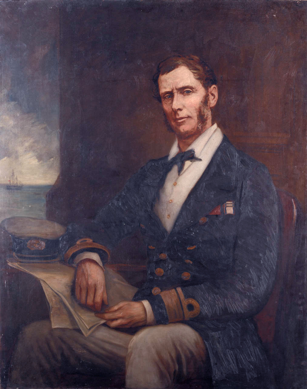 Rear-Admiral Henry John Codrington (1808-1877) oil on canvas 127 x 101.5 cm